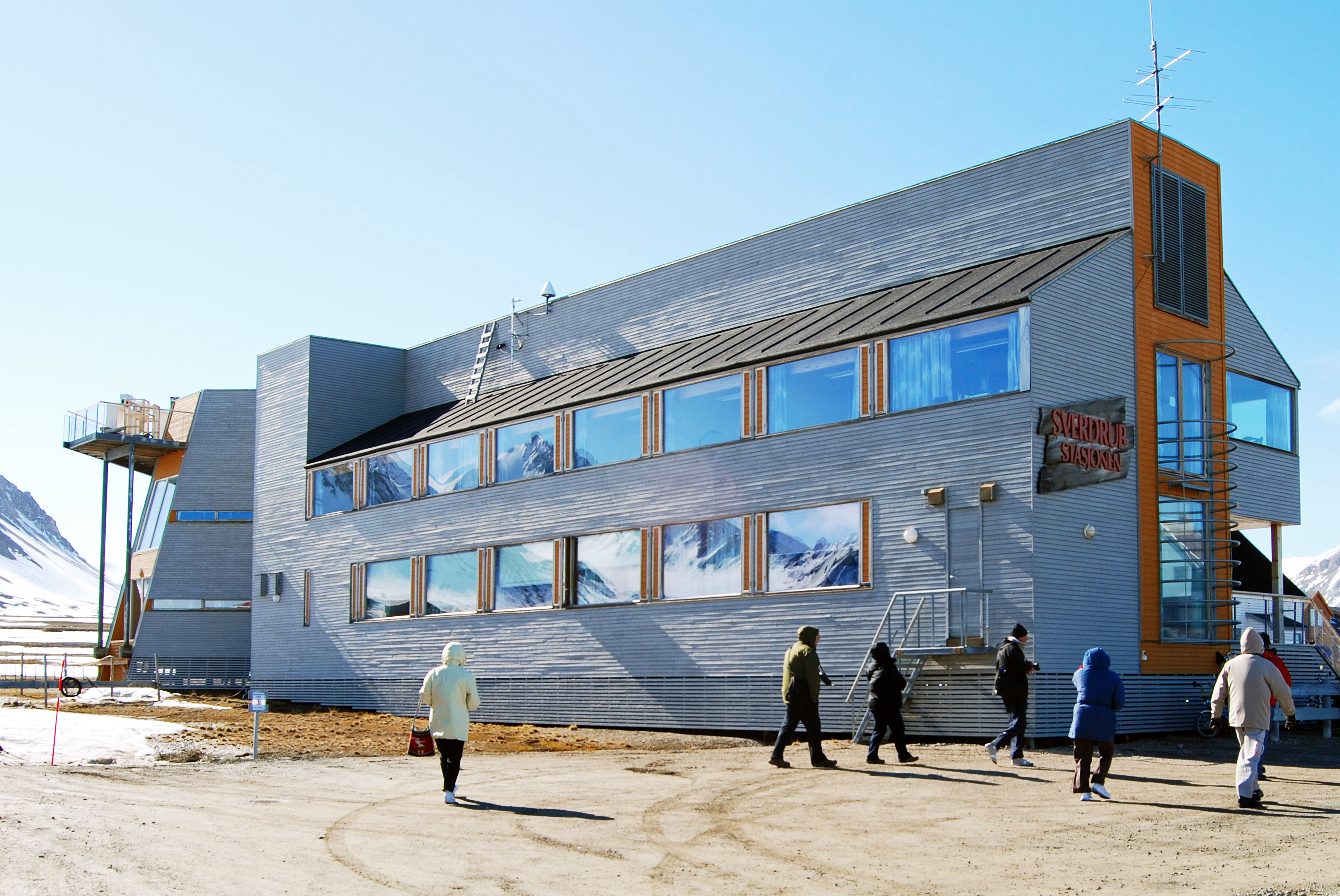 Ny-Ålesund Sverdrupstasjonen - Norwegian Polar Institute Sverdrup Research Stationa serves as a research and monitoring facility for research teams working in the pristine Kongsfjorden environment.